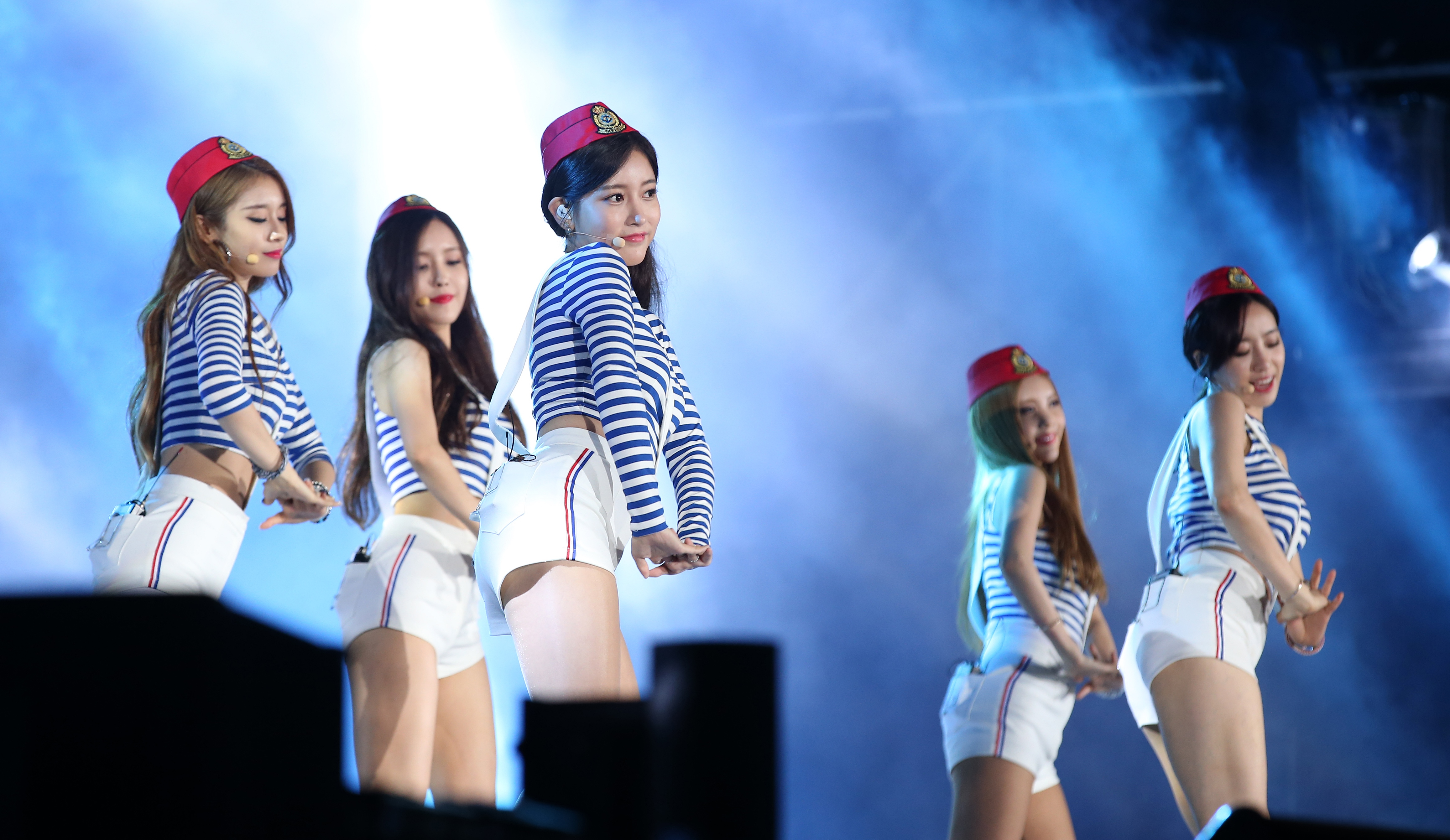 2015 Summer K-POP Festival, August 4, 2015, Seoul Plaza